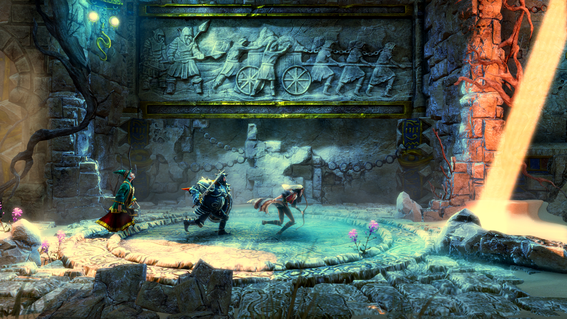 Trine 2 screenshot. Released in 2011, the game was developed by Frozenbyte. The three heroes run through this scene from the Deadly Dustland chapter, part of the Goblin Menace DLC pack released in 2012.